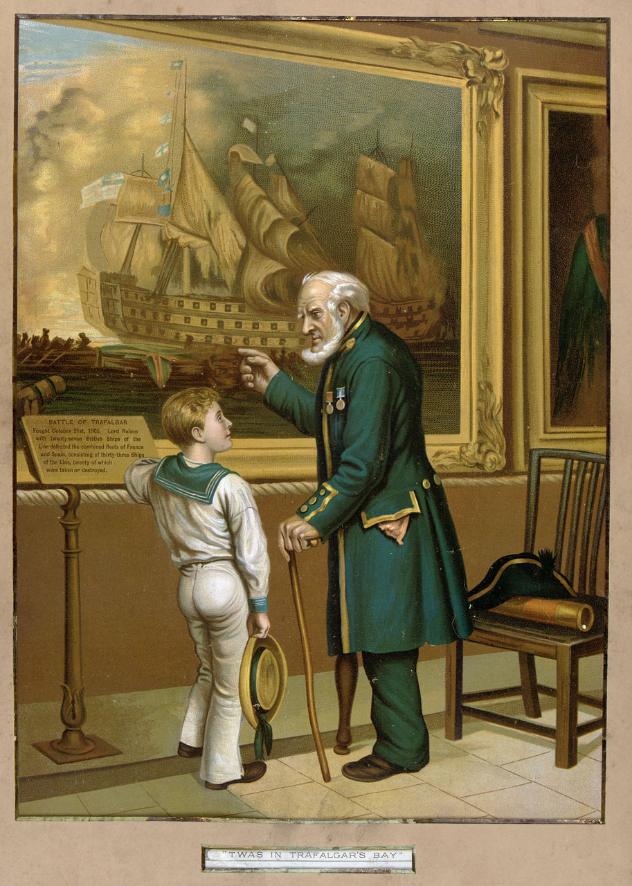 'Twas in Trafalgar's Bay' [Turner's 'Trafalgar' explained by a Greenwich Pensioner] Print. Depicts: clothing, outerwear: dress, boy sailor's and uniform, Greenwich Pensioner's. This shows a one-legged Greenwich Pensioner explaining Turner's 'Battle of Trafalgar' of 1822-24 in the Naval Gallery in the Painted Hall to a boy in a classic late-Victorian sailor suit. It is highly derivative and printed well after Greenwich Hospital finally closed in 1869, though the Naval Gallery remained open (as part of the Royal Naval College from 1873) until the pictures were transferred to the NMM in 1936. The idea is possibly based on Edward Taylor's painting of 1883, 'T'was a famous victory' (now in Birmingham City Art Gallery), which shows a Pensioner giving a similar lecture, in the National Gallery, to two young Victorian sailors from the 'Victory' in front of Turner's 1806 version of Trafalgar (now in the Tate collection). In the present print Turner's painting and its frame are shown far from accurately and rather smaller than they are. The Pensioner also wears two medals, one probably the 1848 General Service medal, the other unidentifiable with a red ribbon.The title 'Twas in Trafalgar's Bay' is the first phrase of John Braham's famous song, 'The Death of Nelson', c.1806. PvdM 9/04 Twas in Trafalgar's Bay [Turner's 'Trafalgar' explained by a Greenwich Pensioner]